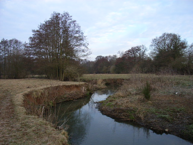 River Hart just upstream of the outlet of Hartley Wintney sewage treatment works. The waters of the Hart are destined for the North Sea, via the Rivers Whitewater, Blackwater, Loddon and Thames. (The white speck is not an error of the photo, it's litter.)